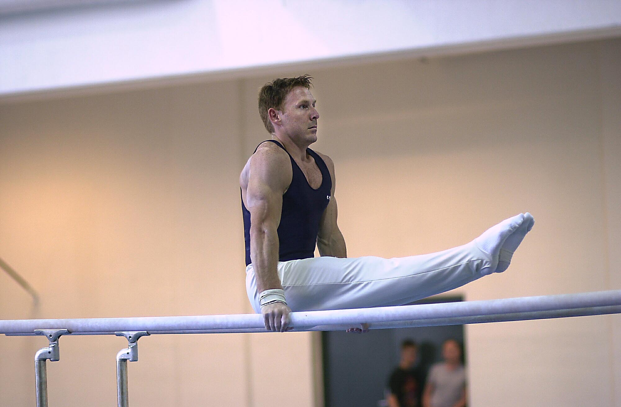 Norwegian gymnast Espen Jansen in parallel bars at the Norwegian championships in 2001.